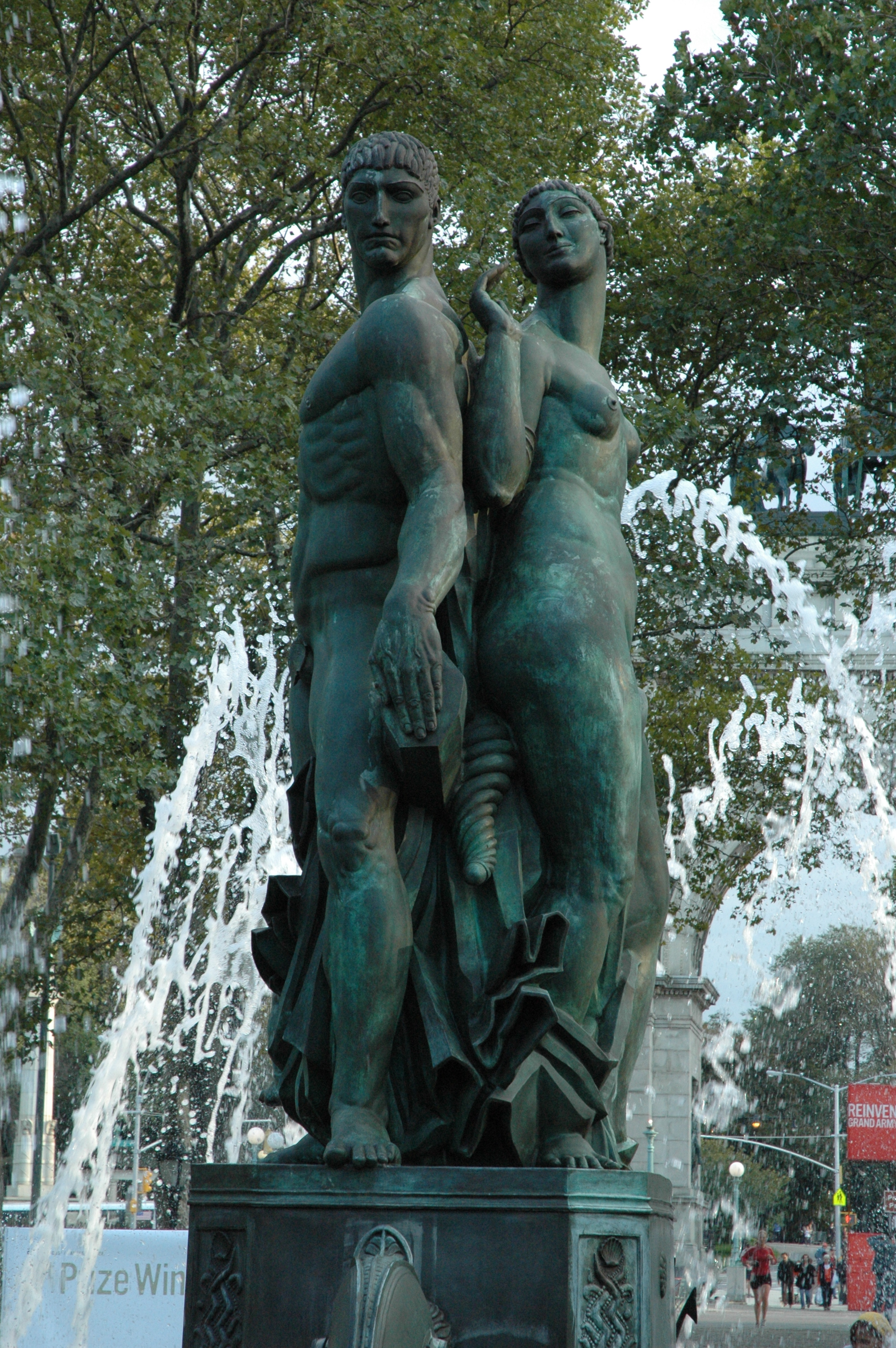 Bailey Fountain, Grand Army Plaza, Brooklyn, New York, by sculptor Eugene Francis Savage, 1932 This photo is of Wikis Take Manhattan goal code J47, Grand Army Plaza.